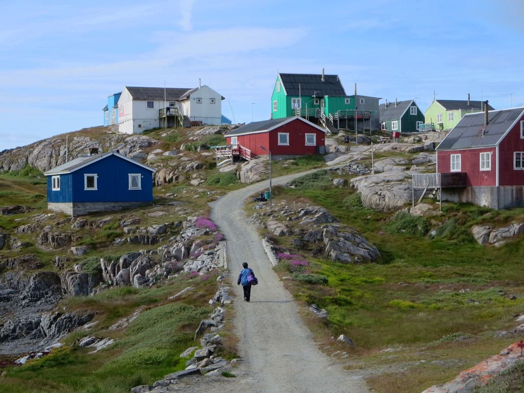 Houses in Itilleq, Greenland